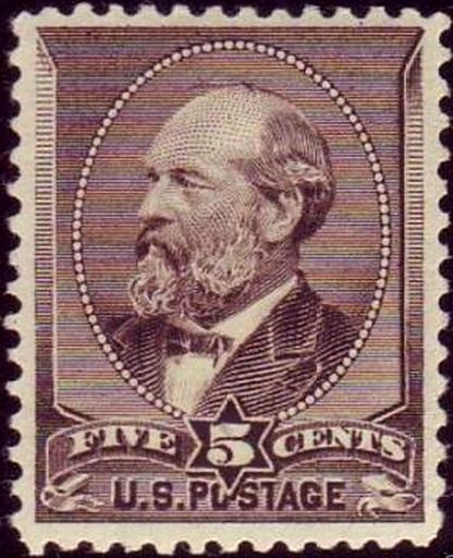 US Postage Stamp: James Garfield, Issue of 1882, 5c (gray-brown)